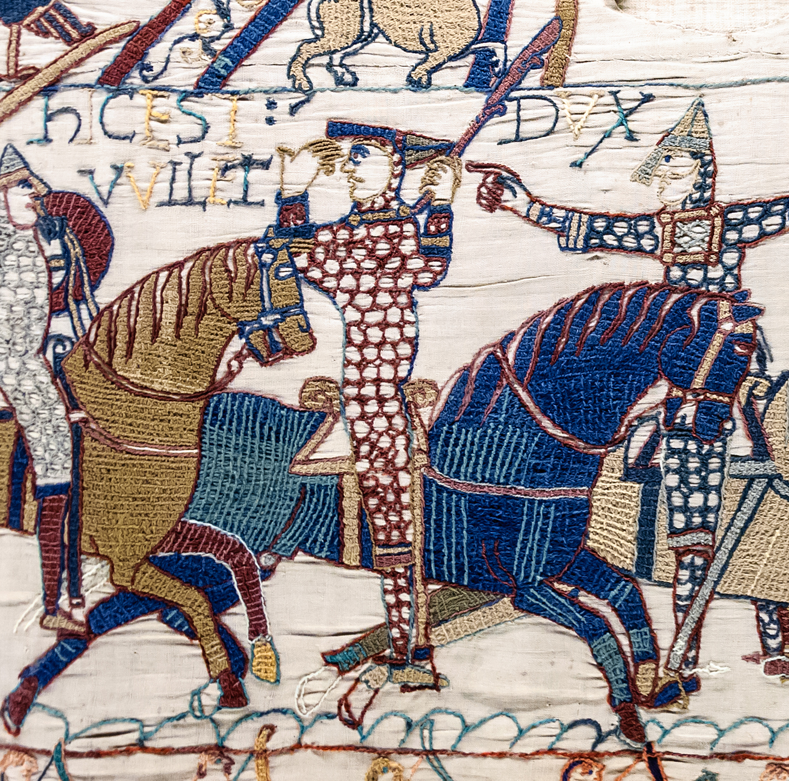 Bayeux Tapestry - Scene 55 (detail) - Duke William on his horse on the battlefield of Hastings.